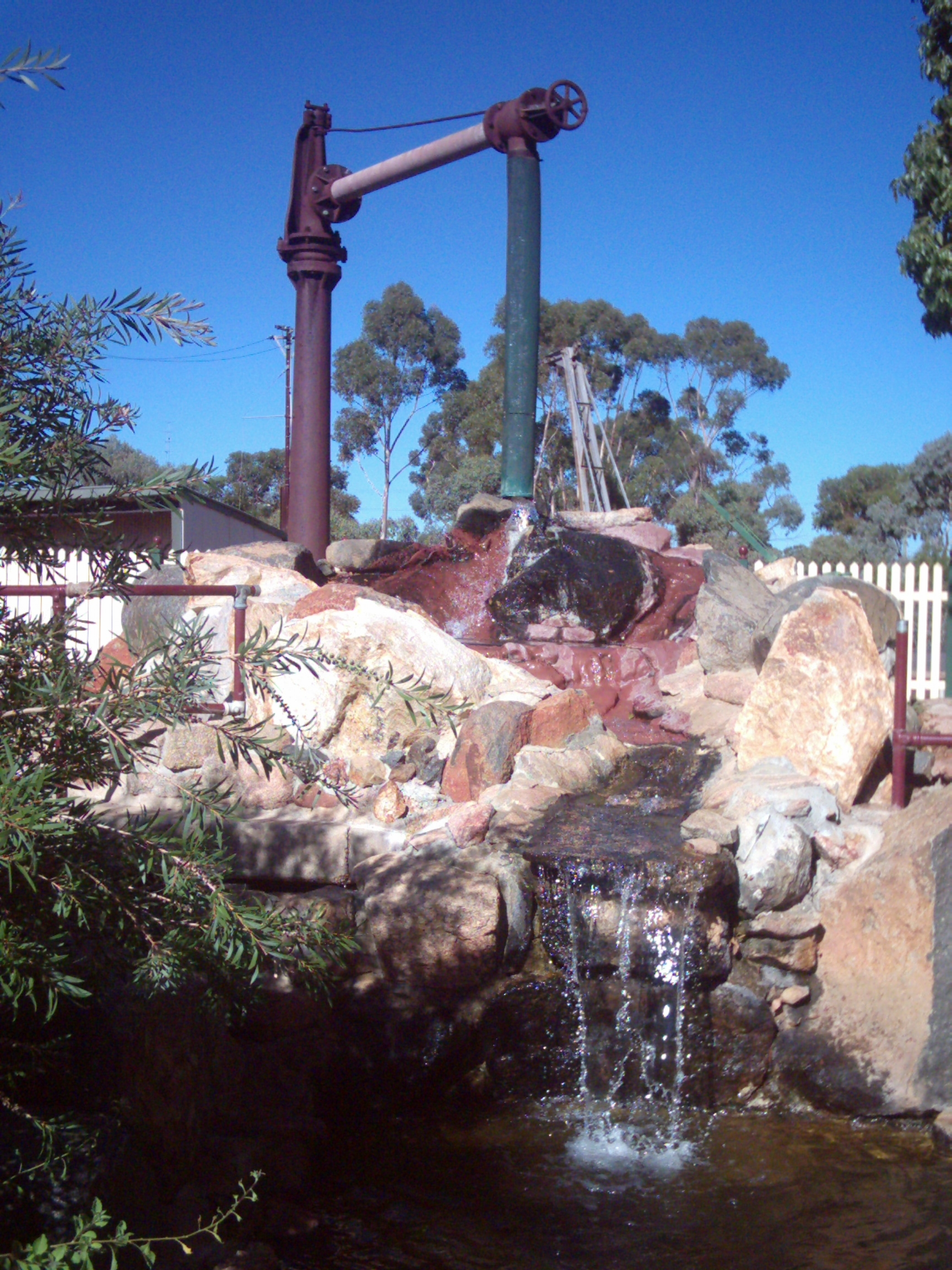 The water standpipe for steam locos at Brookton WA converted to part of a fountain